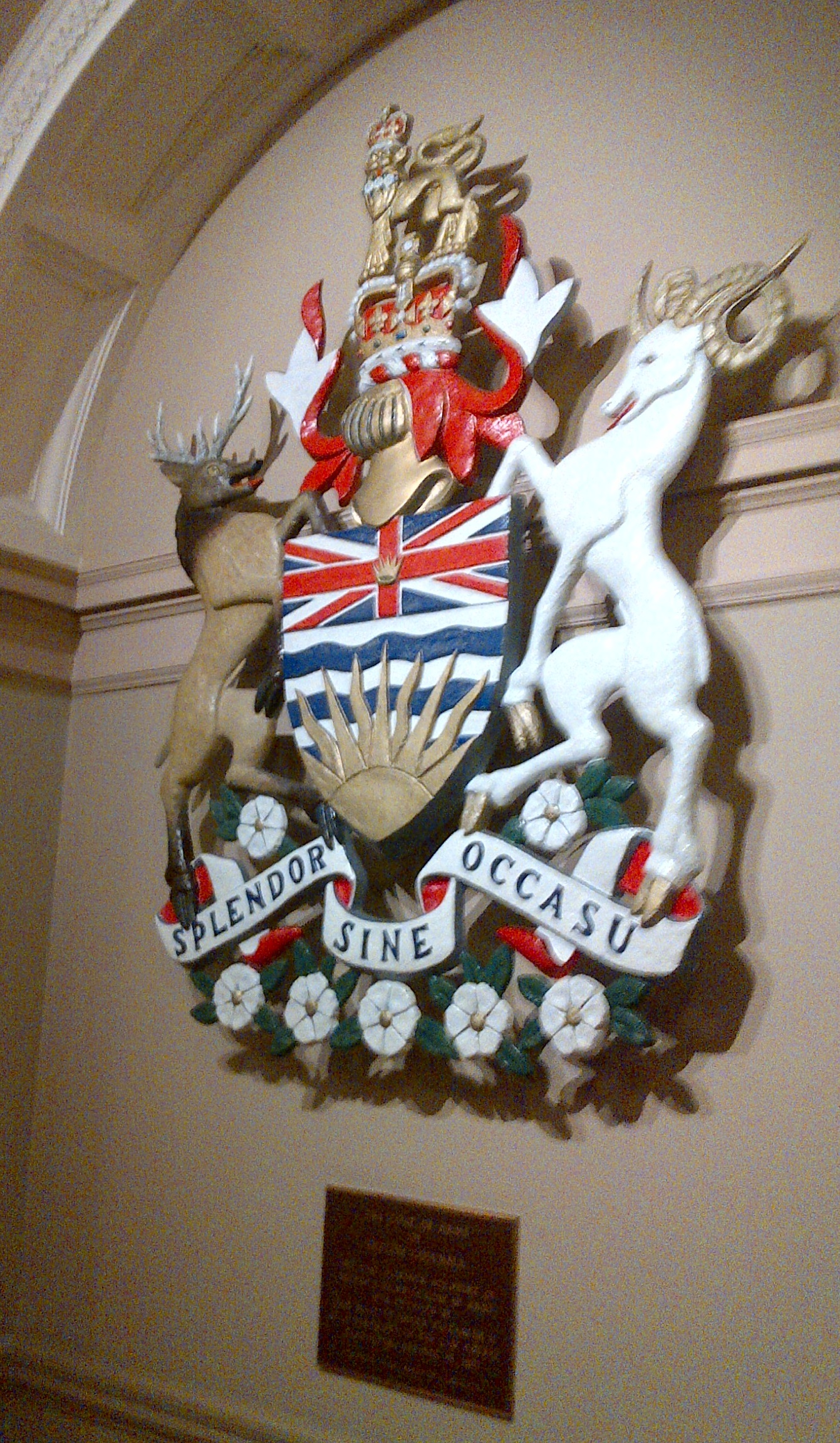 British Columbia coat of arms as displayed on wall in the legislature.